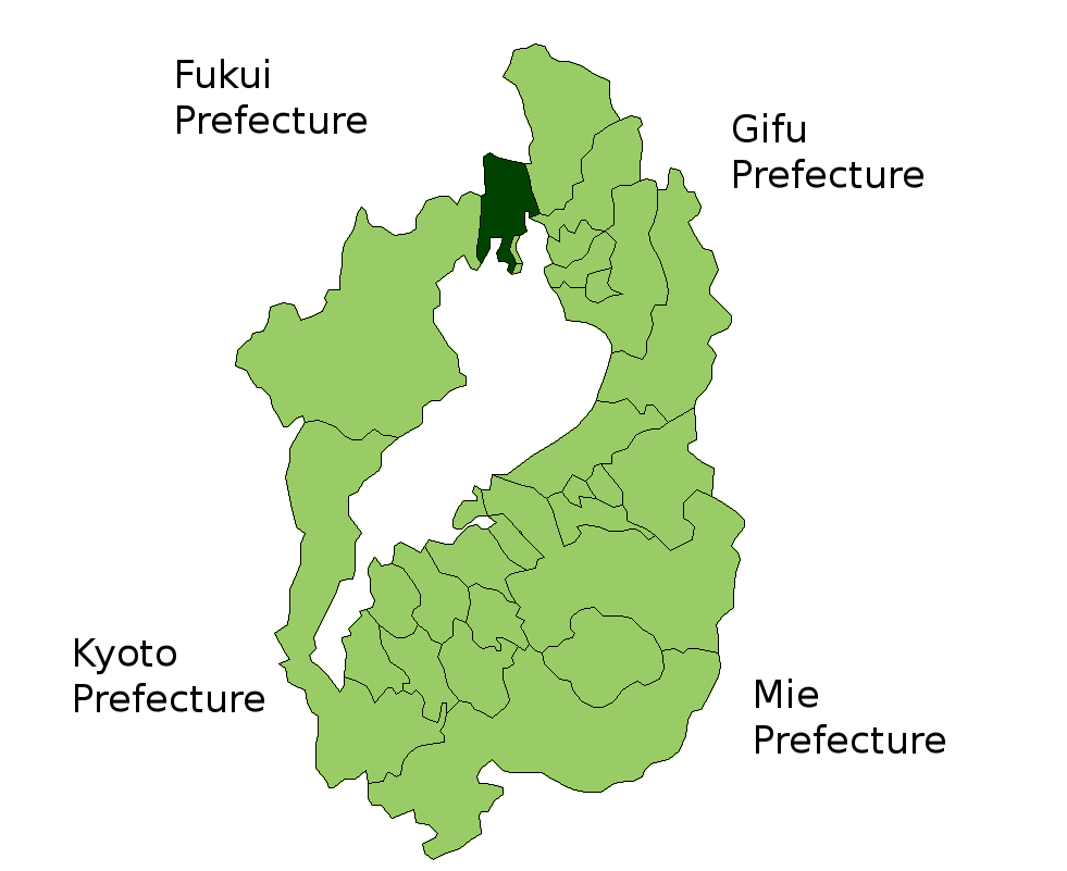 Location Map of Nishiazai in Shiga Prefecture, Japan